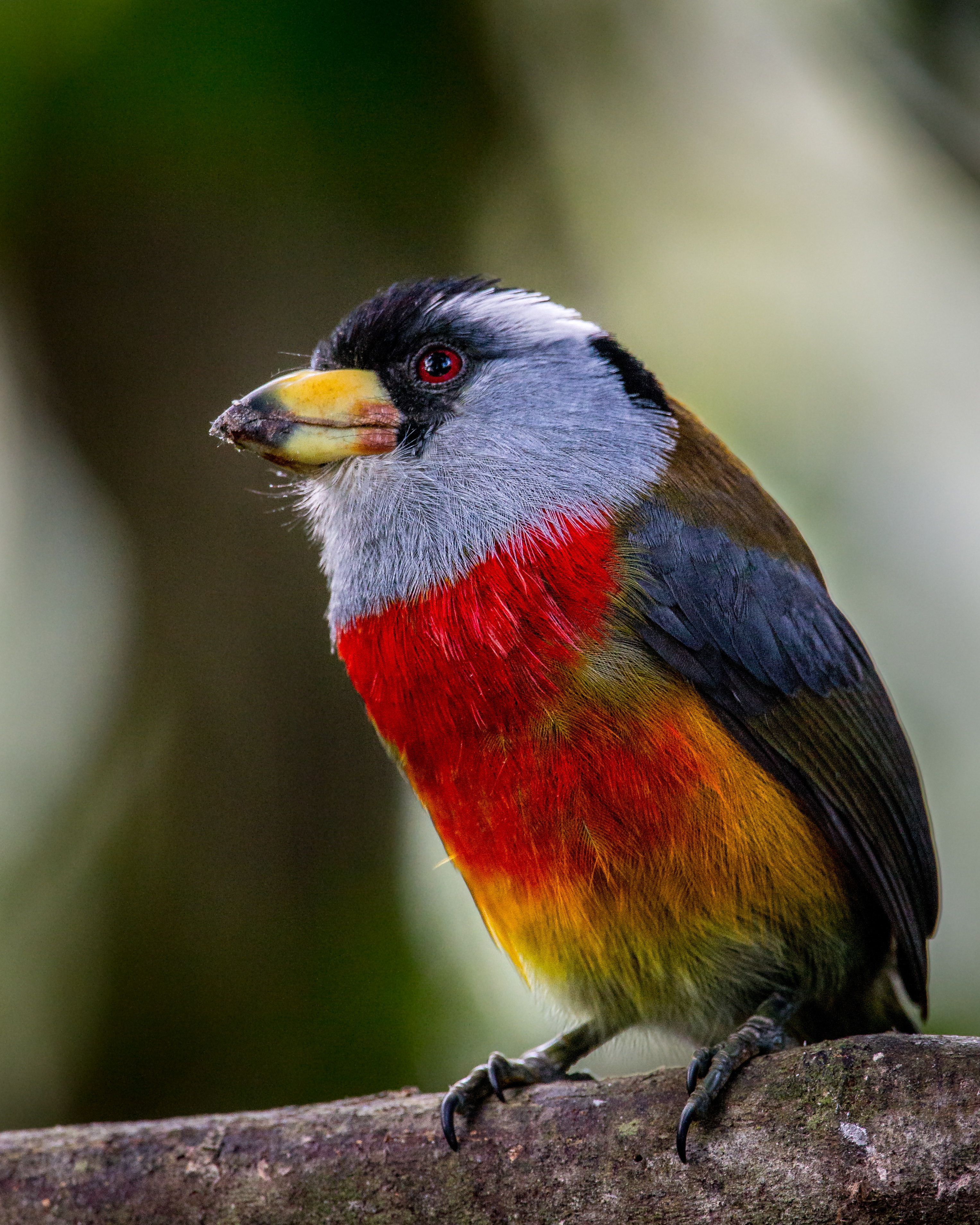 The colours of this Toucan Barbet remind me of the ice lollies we had when I was a kid! Taken at Tandayapa Bird Lodge, Ecuador.